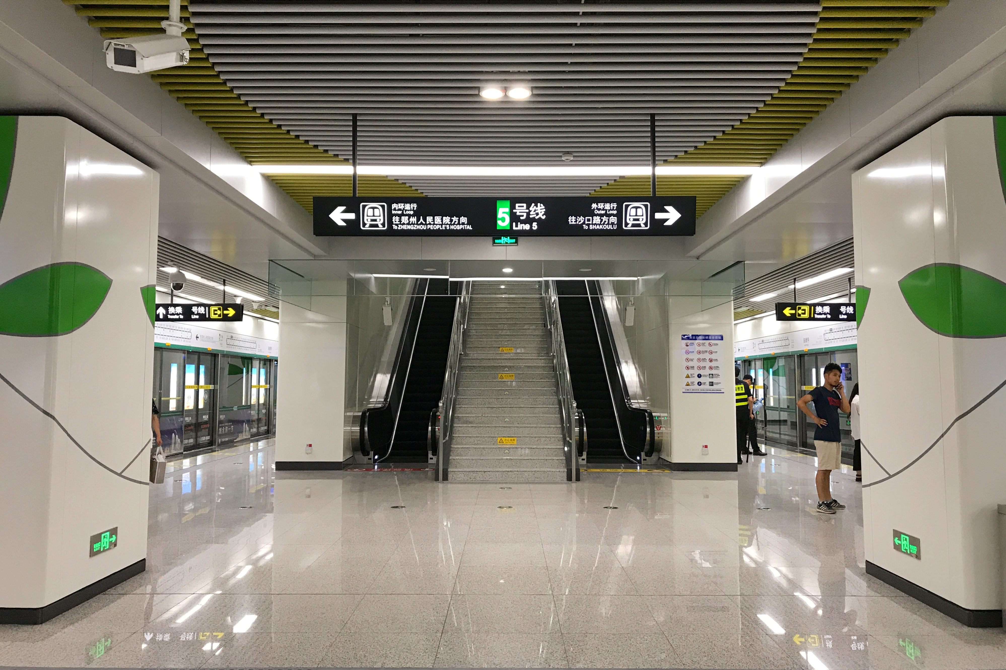 Platforms of Zhengzhou Metro Haitansi Station